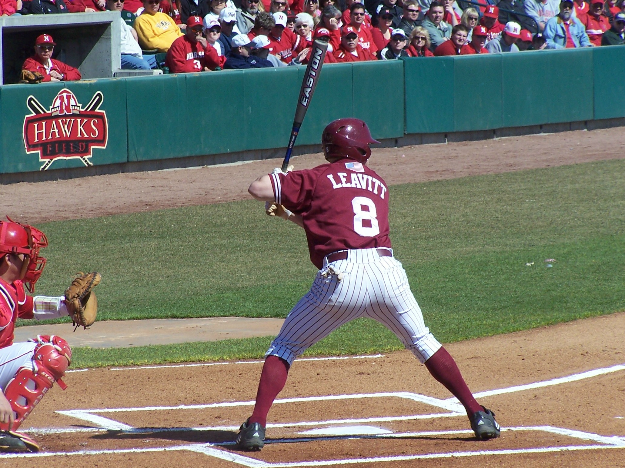 Chase Leavitt playing for the Arkansas Razorbacks in 2008